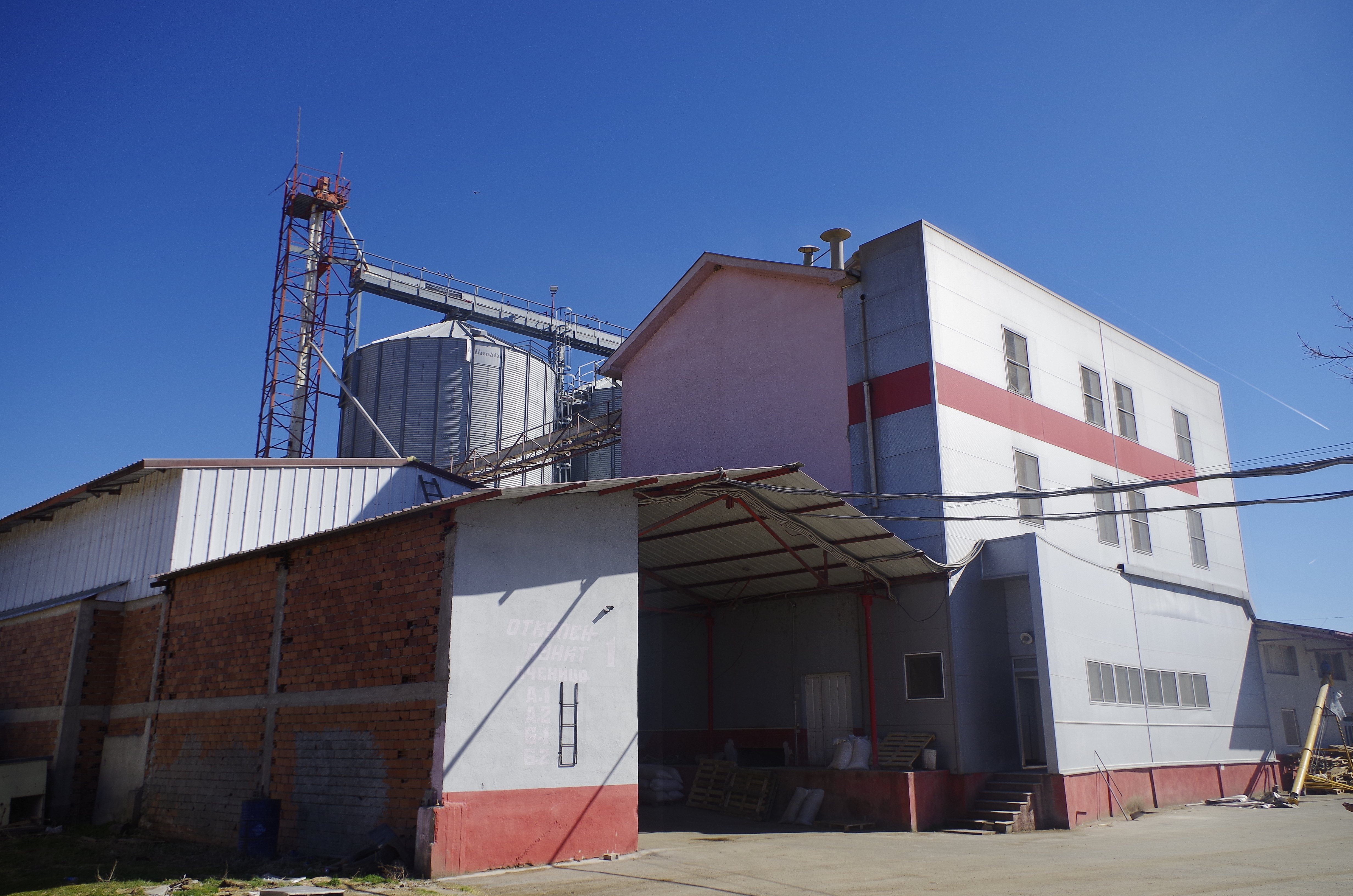 "Mak Mlin" Mill in Cheshinovo, Macedonia